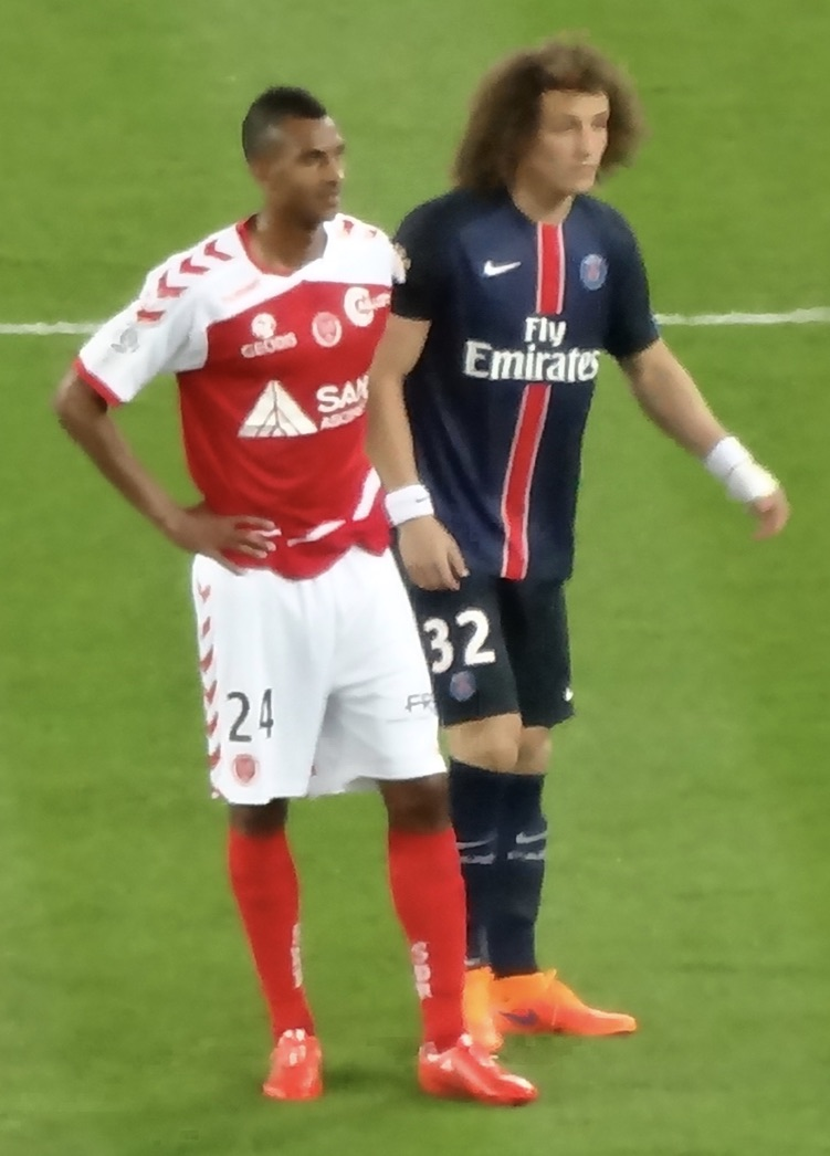 David N'Gog & David Luiz